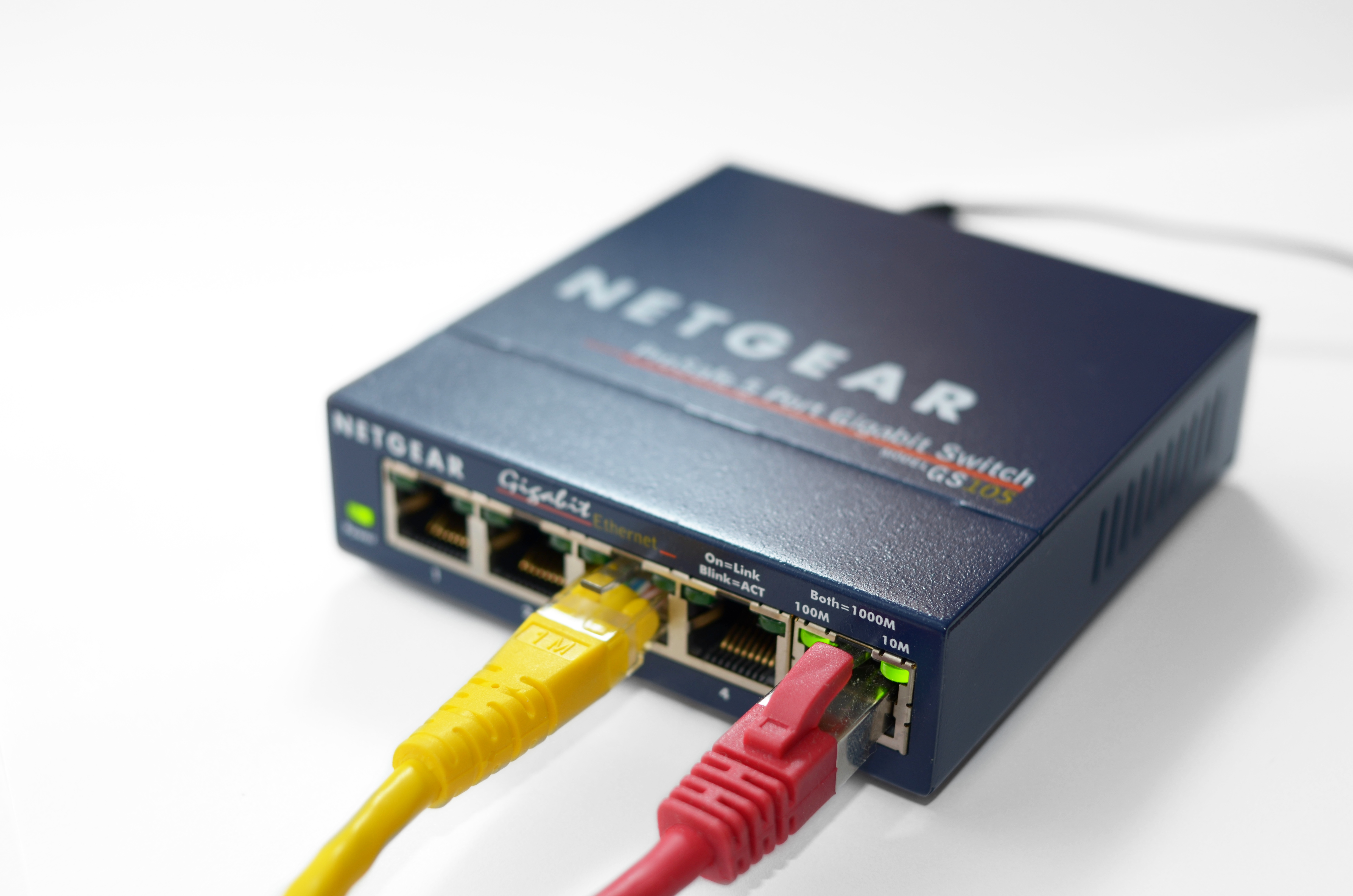 A 5-port gigabit ethernet switch by Netgear. The LED above the red plug indicates an existing link (i.e. it is connected to some other device), the yellow cable is unconnected.